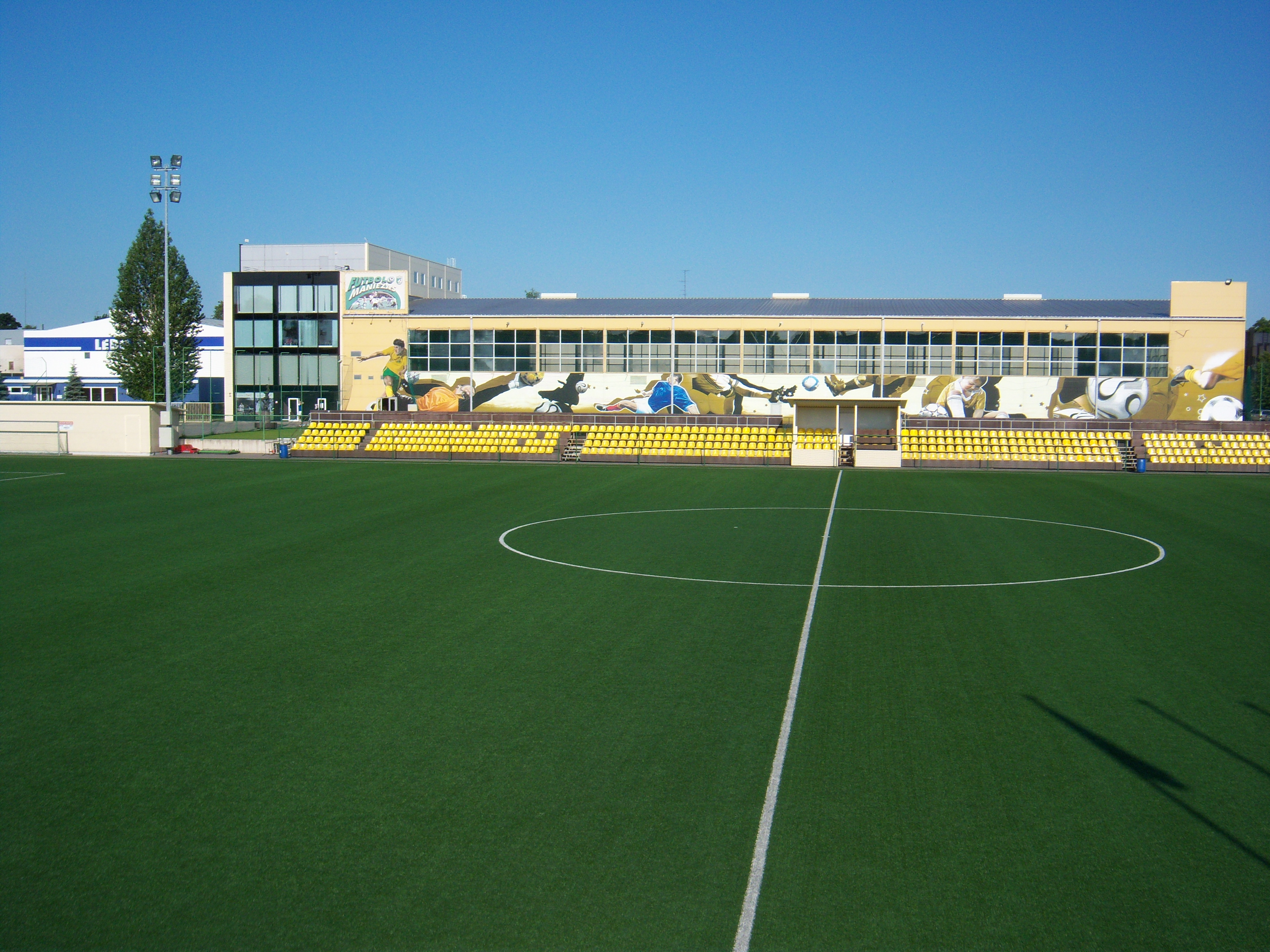 Football Indoor Arena, Kaunas, Lithuania